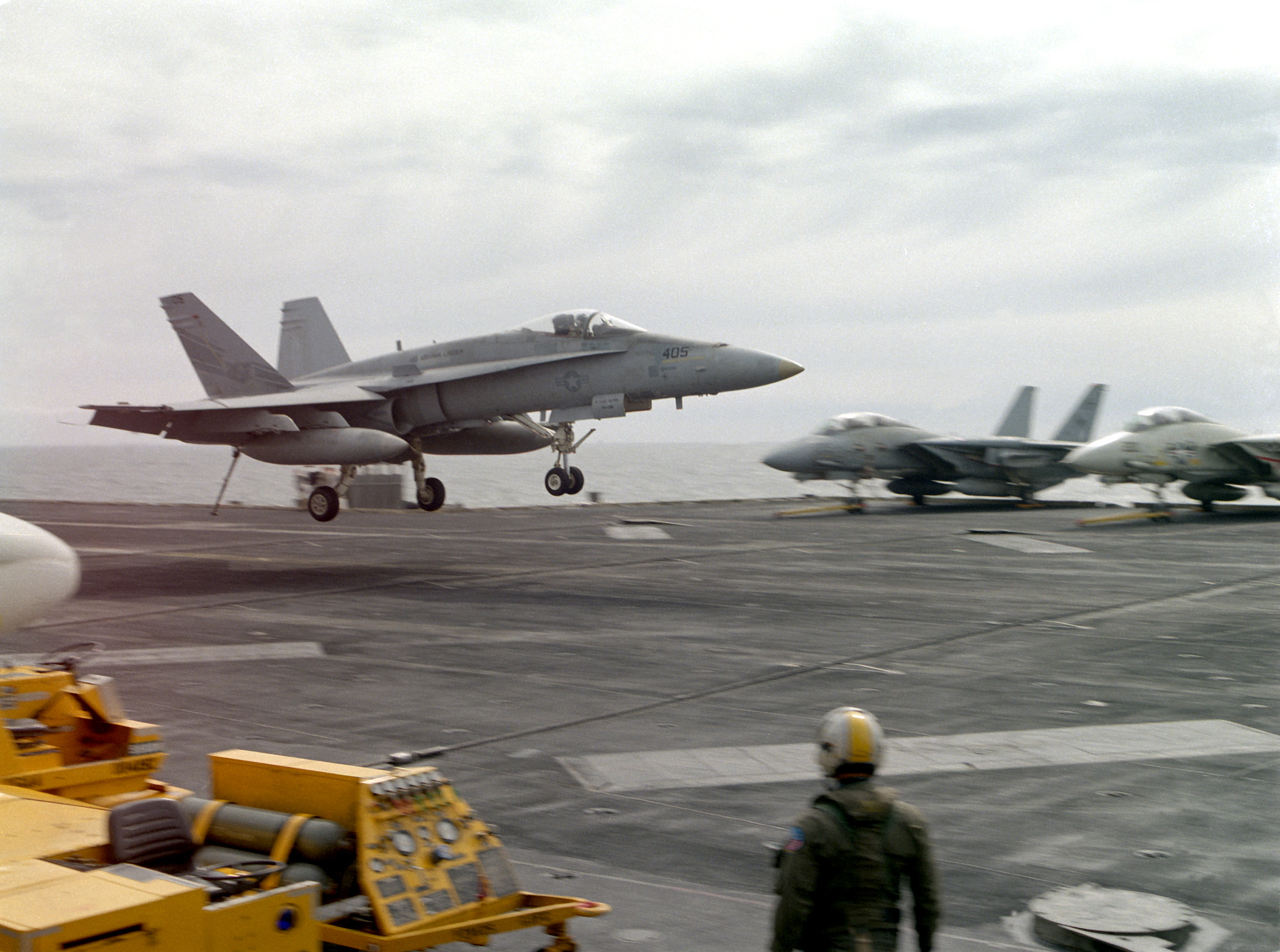 A U.S. Navy McDonnell Douglas F/A-18A Hornet of Strike Fighter Squadron VFA-305 "Lobos" prepares to catch the arresting cable as it comes in for a landing on the flight deck of the aircraft carrier USS Abraham Lincoln (CVN-72) off the coast of Chile, in 1990. The U.S. Naval Reserve squadron VFA-305 was assigned to Carrier Air Wing 11 (CVW-11) during Lincoln´s circumnavigation of South America from 25 September to 20 November 1990.